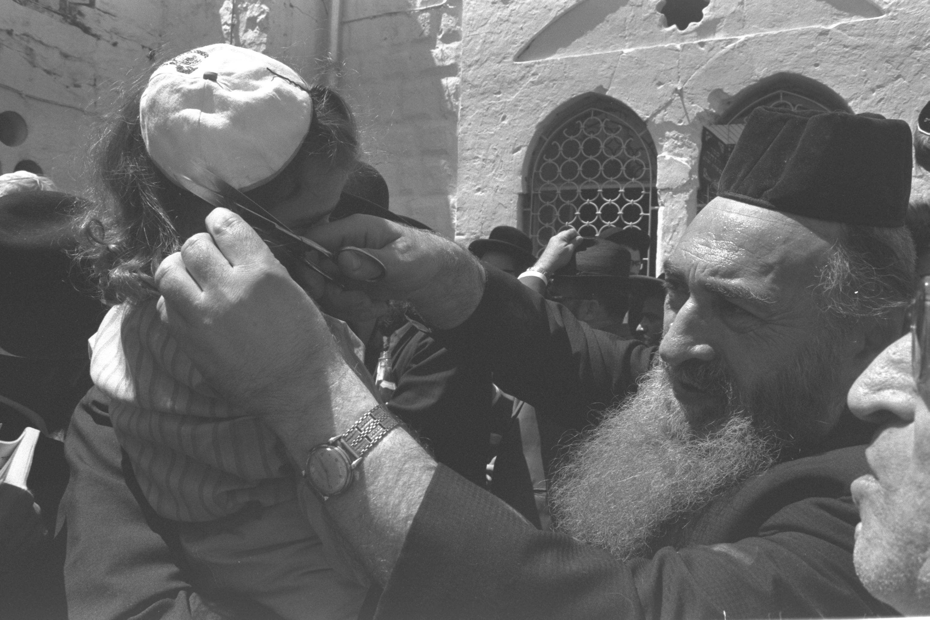 Lag Ba'Omer celebrations on Mount Meron in the Galilee. In the photo, a rabbi performs the traditional first haircut on a three-year-old boy. חגיגות לג בעומר בהר מרון בגליל. בתמונה: גזירת השיער המסורתית של ילדים בגיל 3 Photo: Moshe Milner (1946–) Alternative names Miylner, Moše; Milner, Mosheh; Moshé Milner; Milner, M.; Mîlner, Moše; Miylner, MošehDescriptionIsraeli photographerצלם ישראליDate of birth 1946 Location of birth Germany Authority control : Q28750411 VIAF: 100999744 ISNI: 0000 0001 0804 0507 LCCN: n82072104 GND: 115699732 BNF: 15548788n WorldCat creator QS:P170,Q28750411 , 04/25/1970